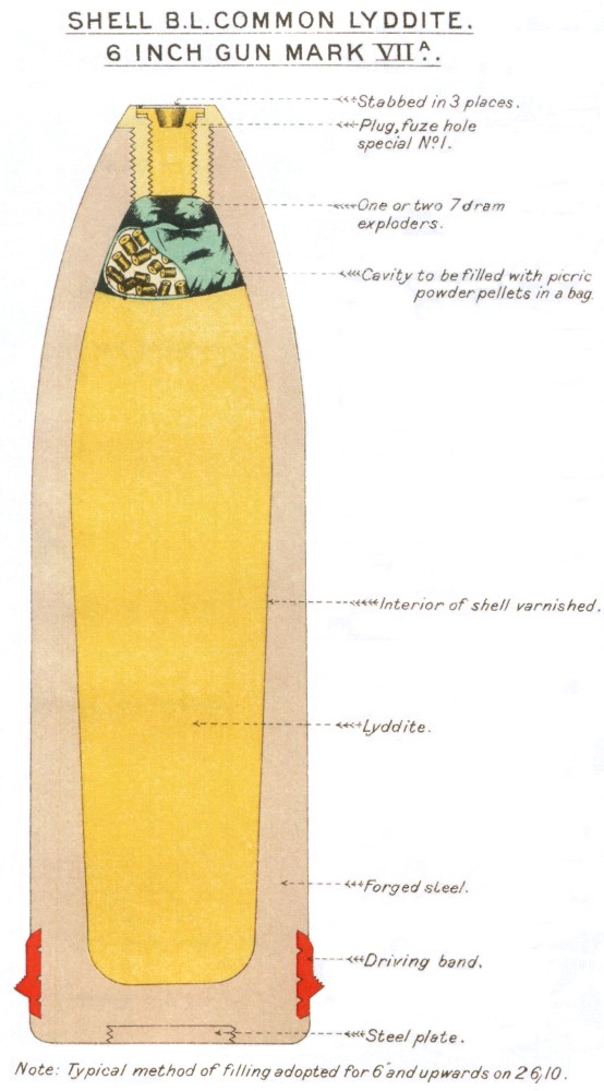 Diagram of British 6 inch Mk VIIA Common Lyddite shell, 1914. "A" denotes the shell has a 4 Calibres Radius head, as opposed to 2 C.R.H. This means the nose is longer and more pointed, hence this shell is 1.36 inches longer than the 2 C.R.H. Mk VII shell. The shell is of the modern British high-explosive design, with the shell wall thick at the base but progressively thinner towards the nose, allowing room for more explosive. Filled with 13 lb 5 oz Lyddite. Total weight filled & fuzed 100 lb. Shell length 22.89 inches. The shell has the No. 7 cupro-nickel driving band design preferred for Naval use. For use with the following guns :- BL 6 inch Guns Mk VII, VIII, Naval service. BL 6 inch Gun Mk XI, Naval service.